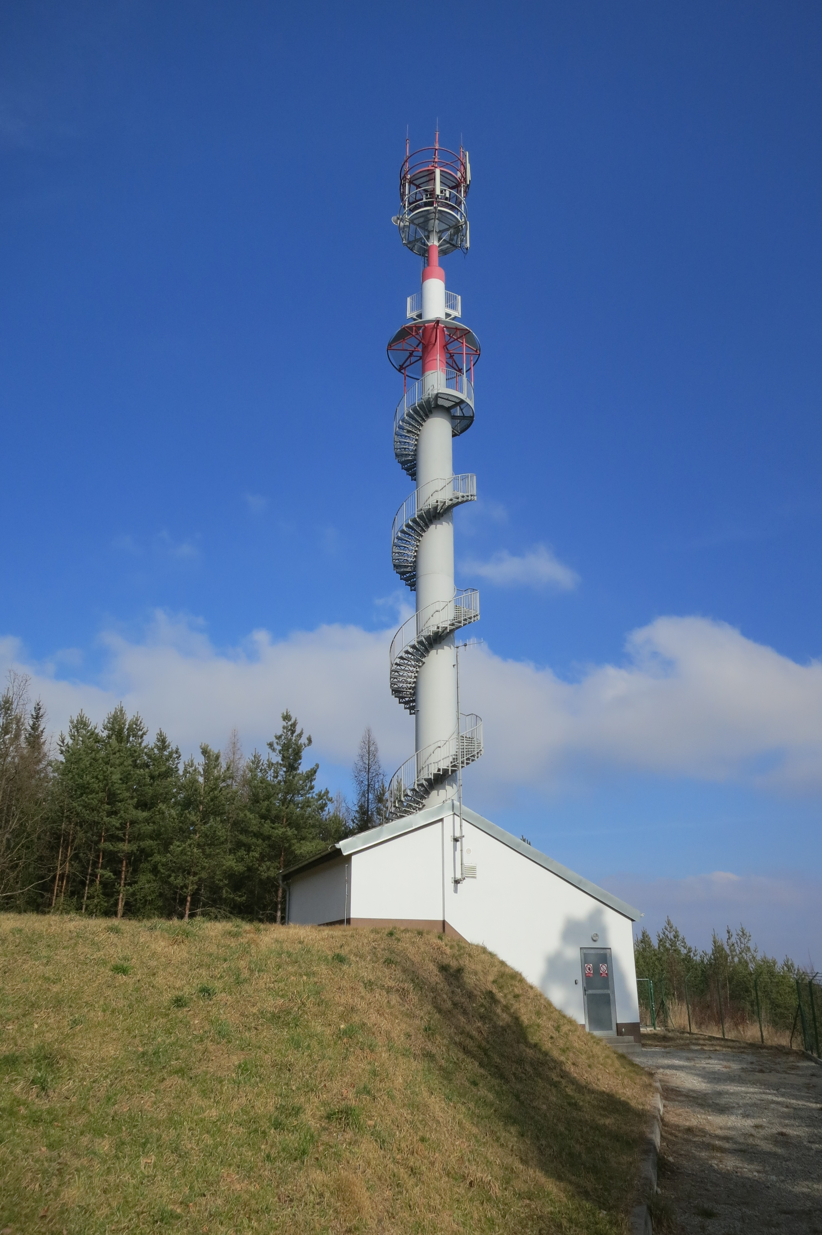 Overview of Observation tower Ládví-Vlková in Ládví, Kamenice, Praha-Východ district.